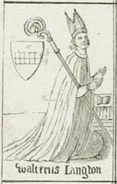 Drawing circa 1762-98, 'EFFIGIES and ARMS formerly in LICHFIELD CATHEDRAL, copied from DUGDALE'S Visitation in the Herald's College.' Showing window-glass and coats of arms. 'Plate XXII.' 'Rev. S. Shaw, del., [drawn]; R. W. B[asire] sc., [engraved].' Arms, as tricked in the image: Or, a fess compony azure and gules (Bedford, Blazons of Episcopacy, 1858, p.57, apparently based on Dugdale's depiction[1])